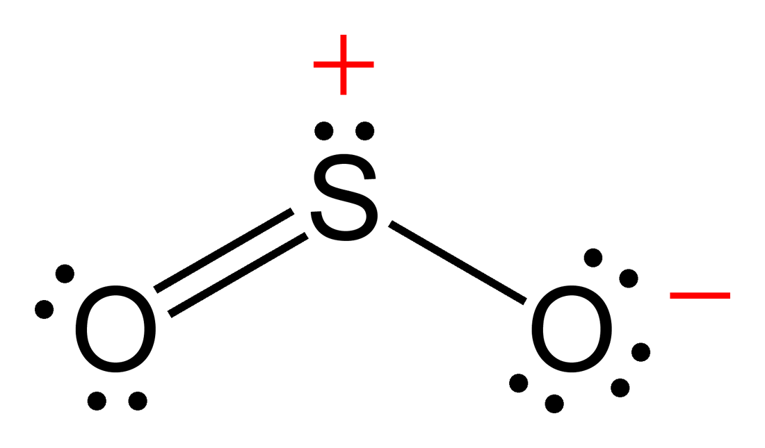 Lewis structure of one of the resonance forms of sulfur dioxide, SO2.